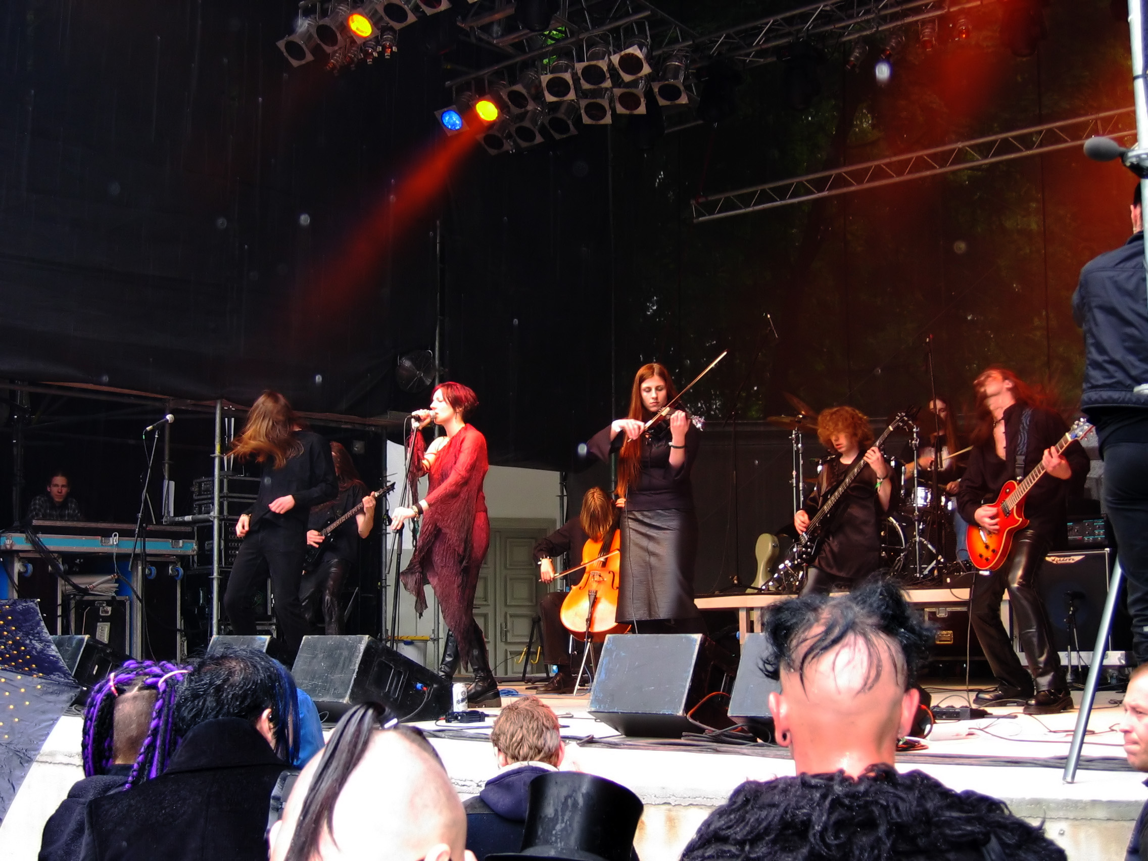 Silent Stream of Godless Elegy during concert on Wave gothik treffen 2005